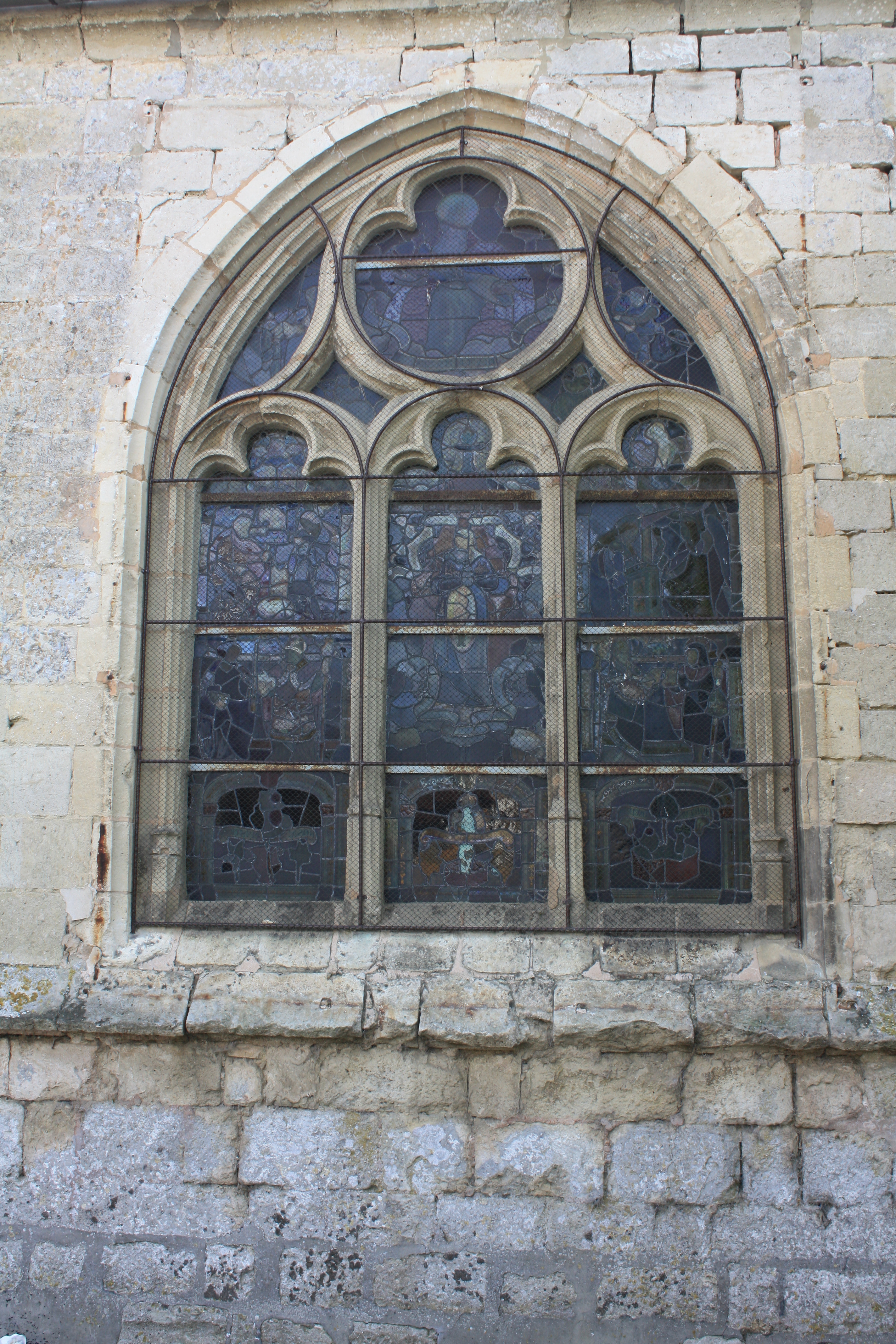 Église Saint-Martin de Maast-et-Violaine 3